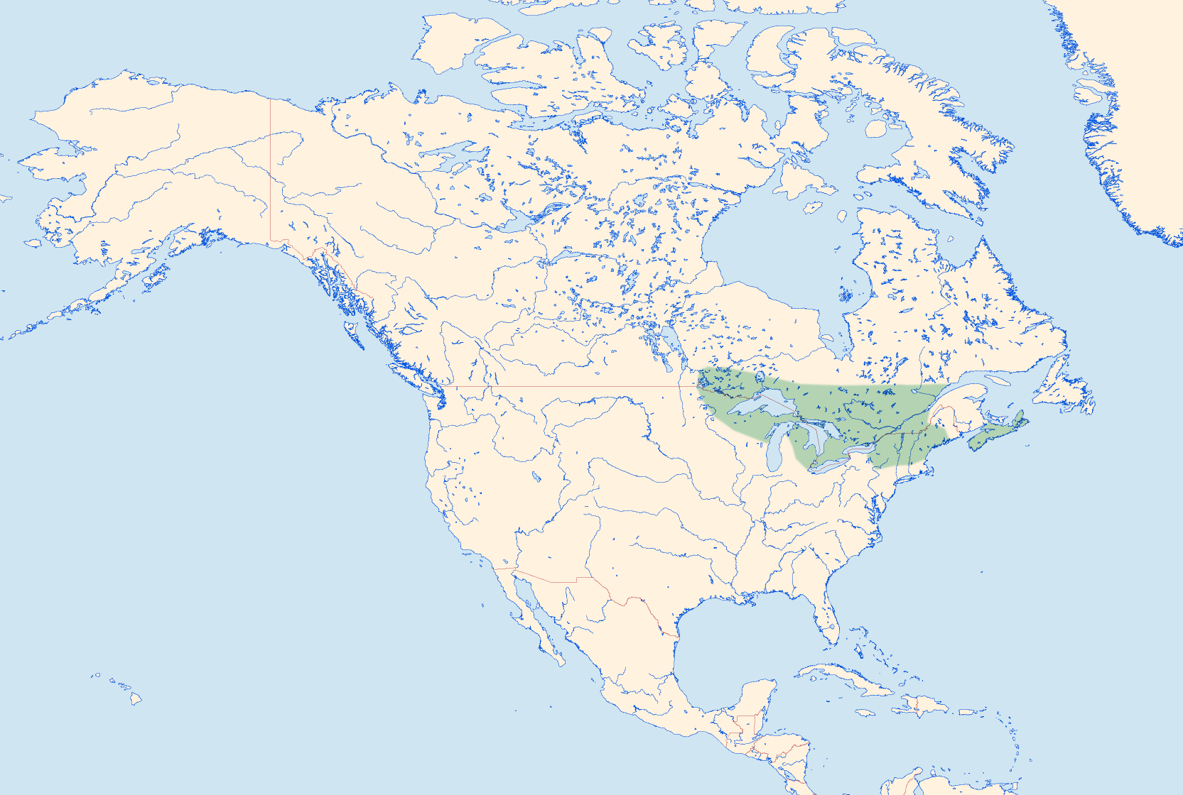 Distribution of Vernal Bluet (Enallagma vernale). Data Source: Dennis Paulson: Dragonflies and Damselflies of the East, Princeton Field Guides, Princeton University Press, New Jersey 2011, ISBN 978-0-691-12283-0.